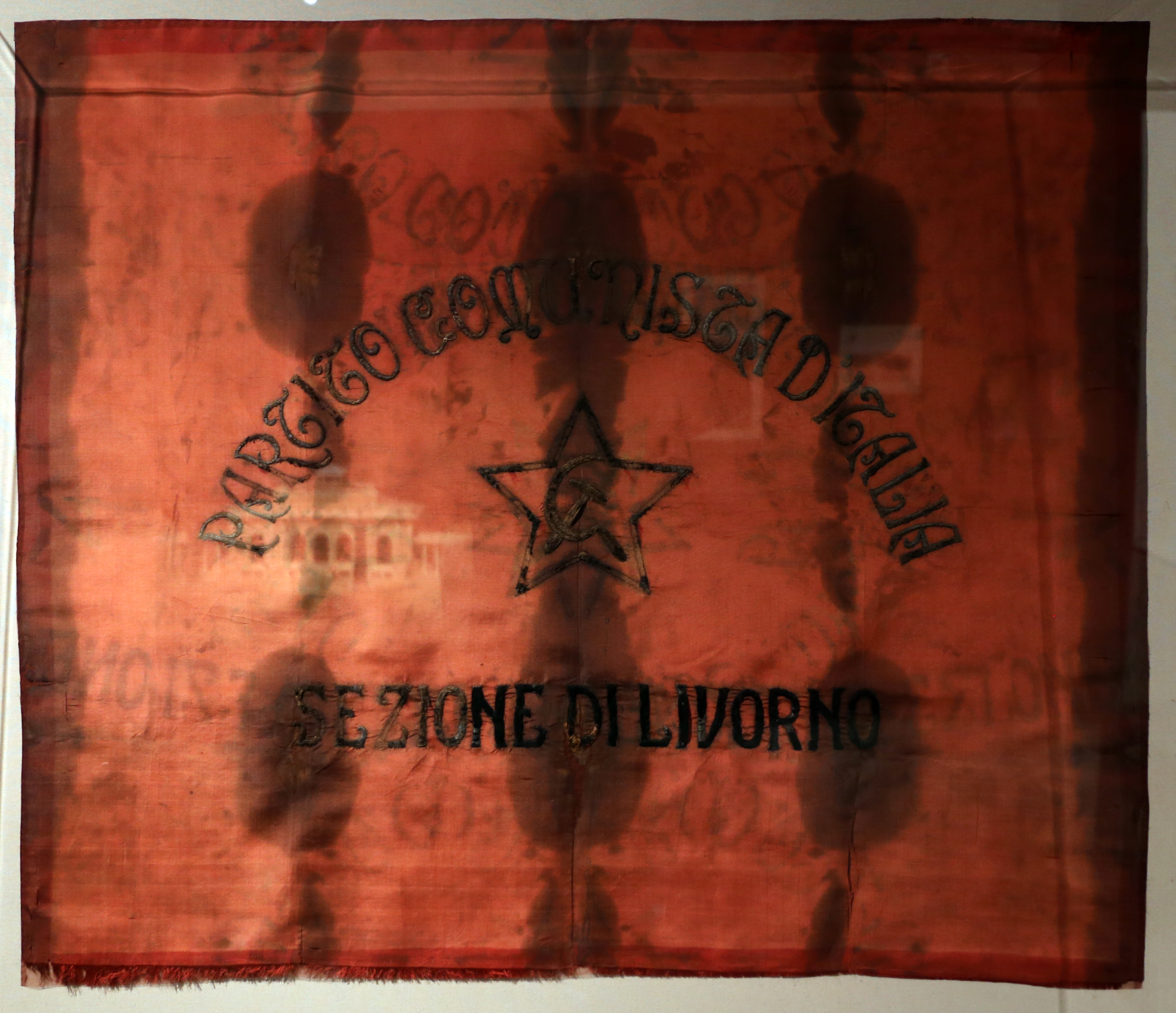 Collections of the Museo della città (Livorno)